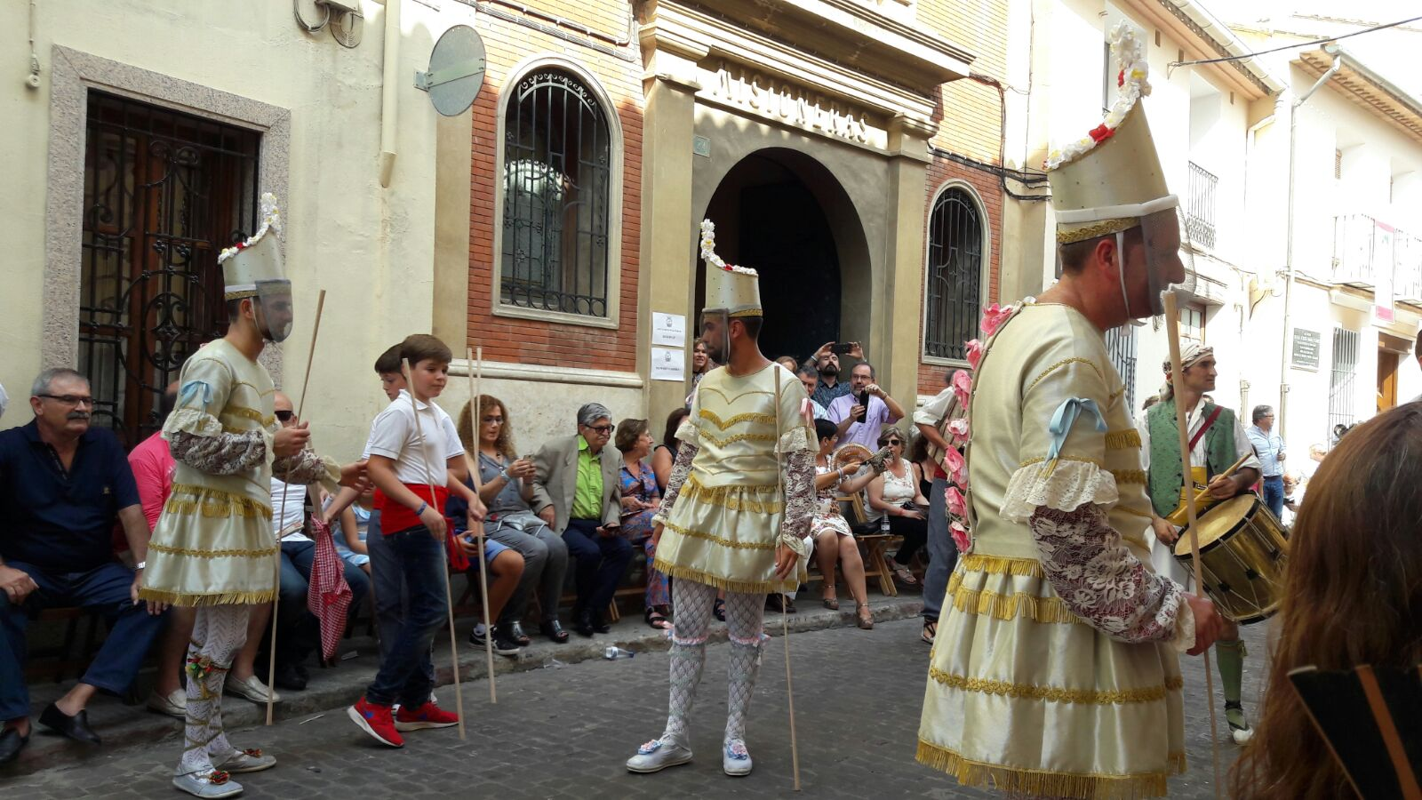 Mare de Déu de la Salut. La Mare de Déu de la Salut Festival is celebrated in September 8, in Alegemesi, Spain and commemorates the legendary discovery in 1247 of a statue depicting the Madonna and Child.